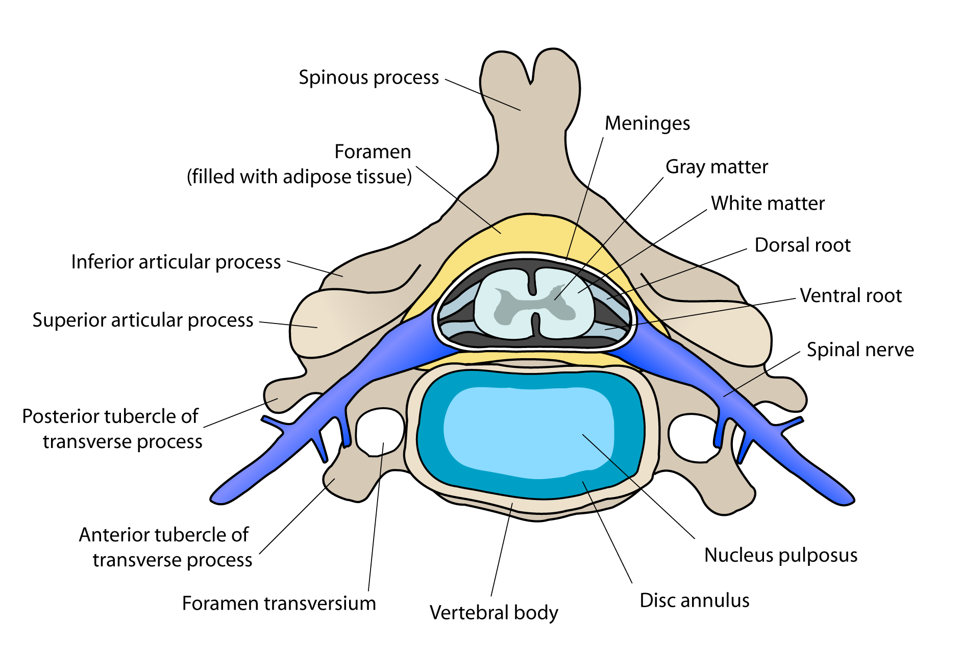 annotated diagram of cervical vertebra